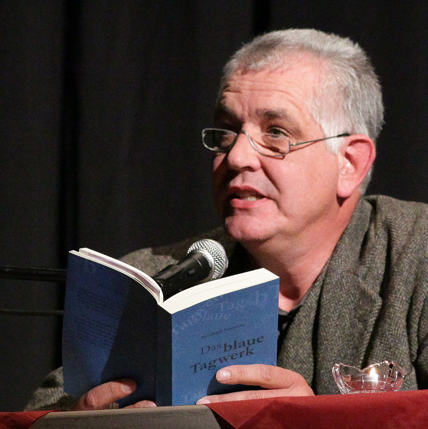 Bernhard Setzwein on a reading at Viechtach